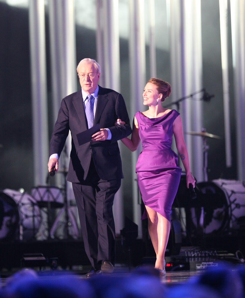 Nobel Peace prize Concert 2008, Oslo Spektrum, Scarlett Johansson and Michael Caine